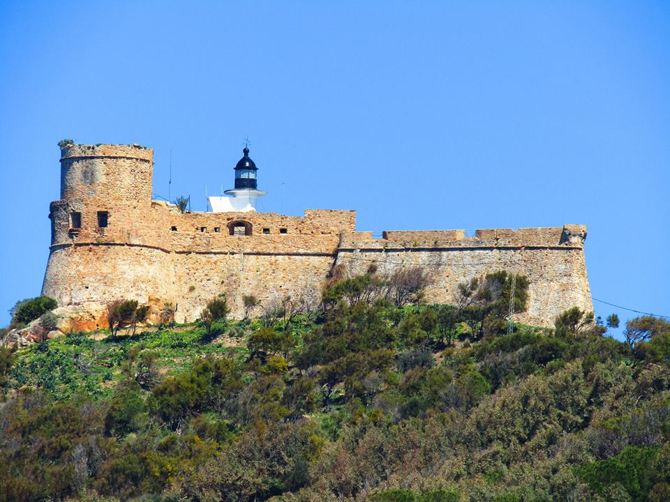 tabarka tunisie